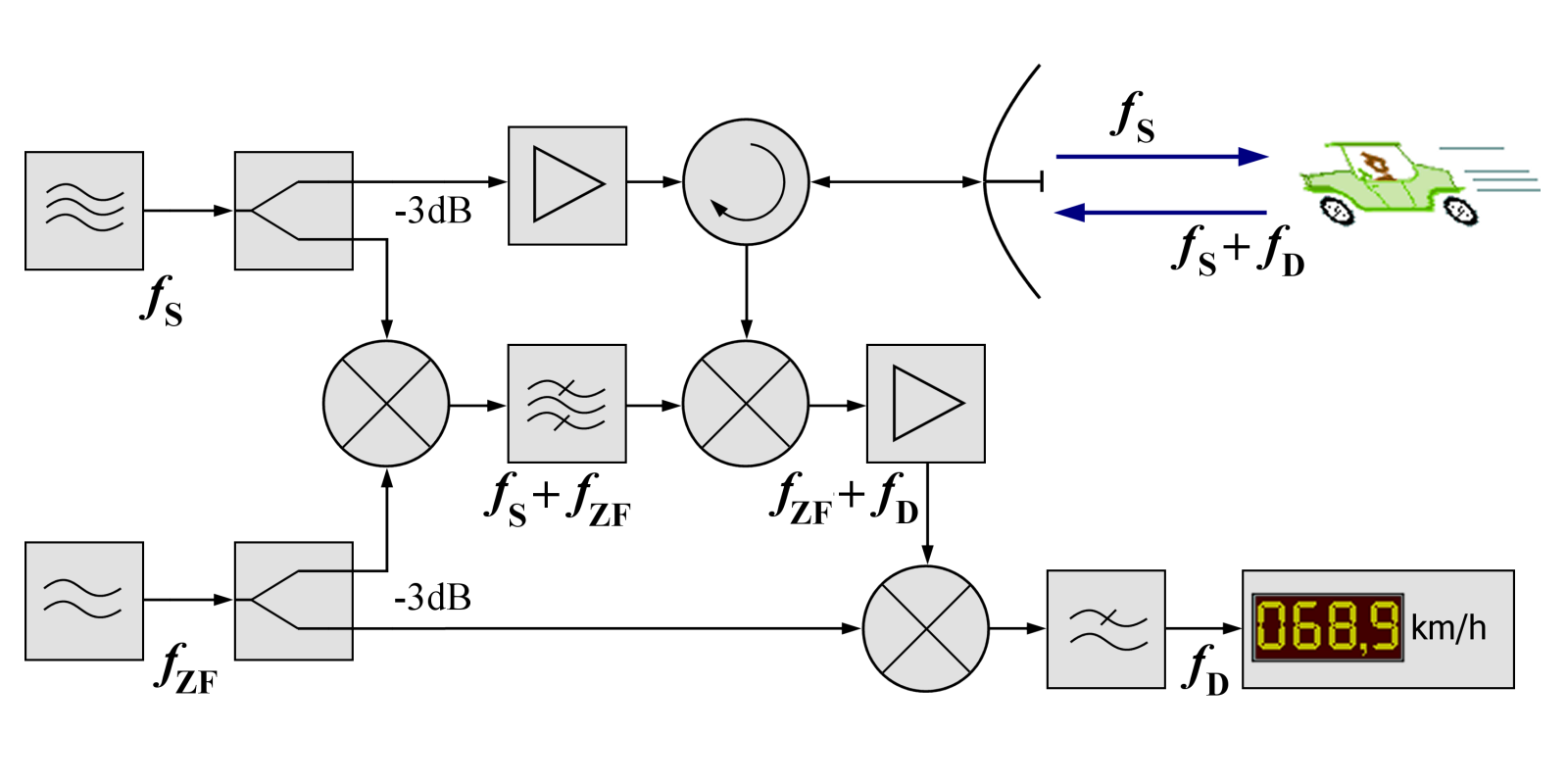 enhanced schematic diagram of CW Doppler- Radar